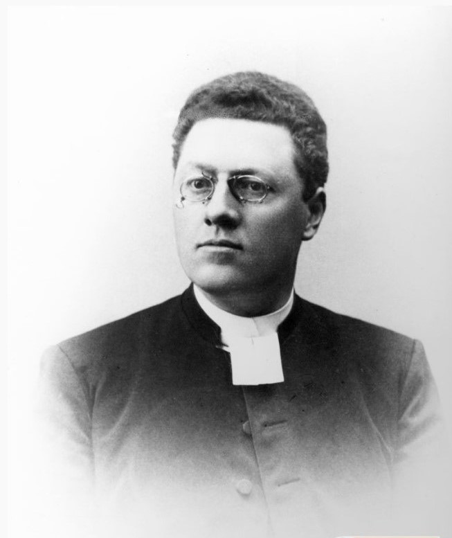 Swedish vicar Thorsten Pihl (1866-1948)